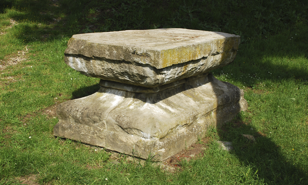 Fiesole archaeological site, Florence, Italy. Temples.